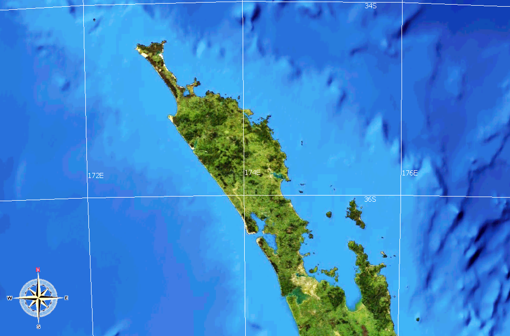 Northland Peninsula, North Island, New Zealand (satellite image from NASA World Wind)